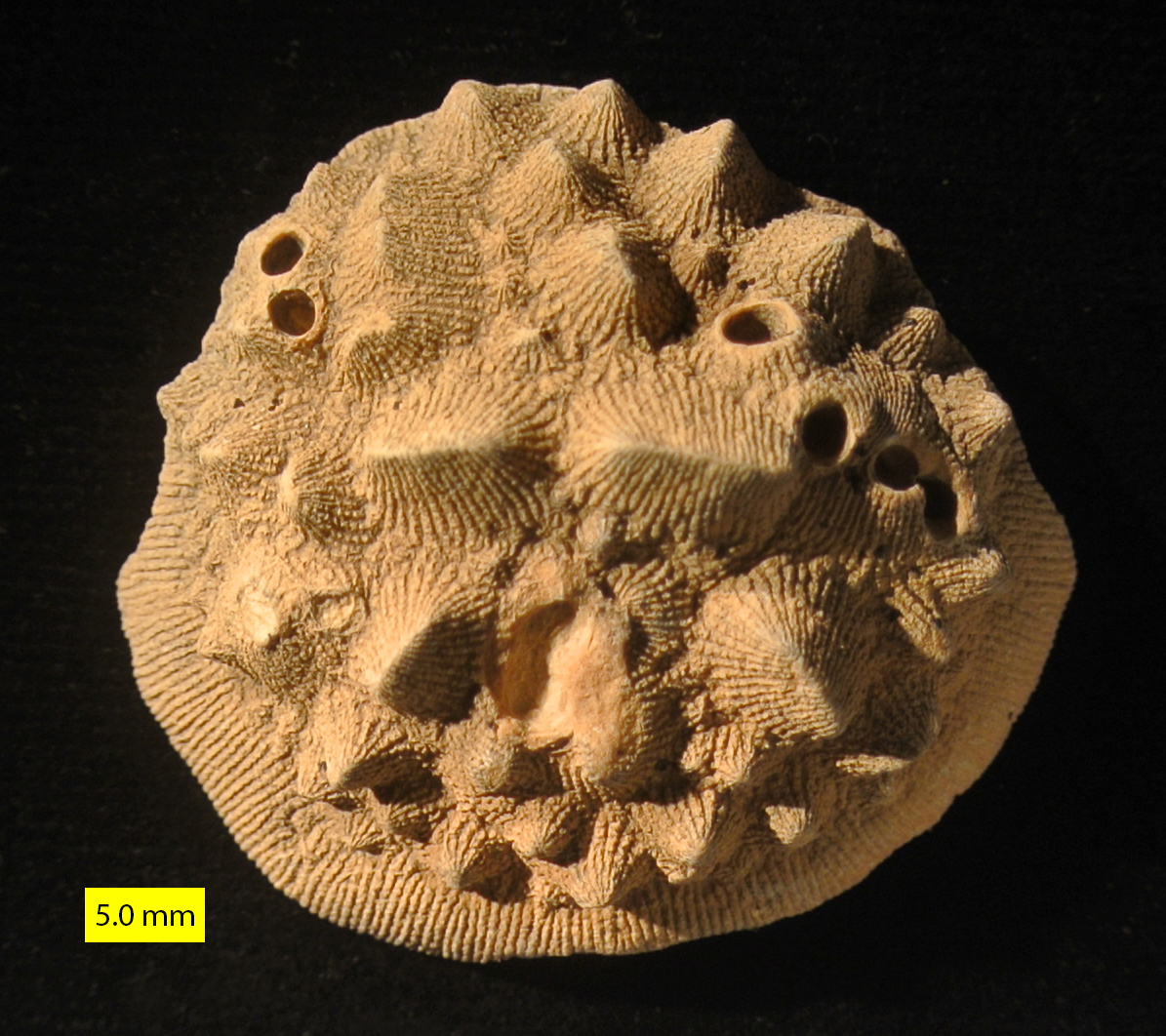 Aspidiscus cristatus from the Cenomanian (Upper Cretaceous) En Yorqe'am Formation of southern Israel; oral view; the round holes are bivalve borings-bioclaustrations.